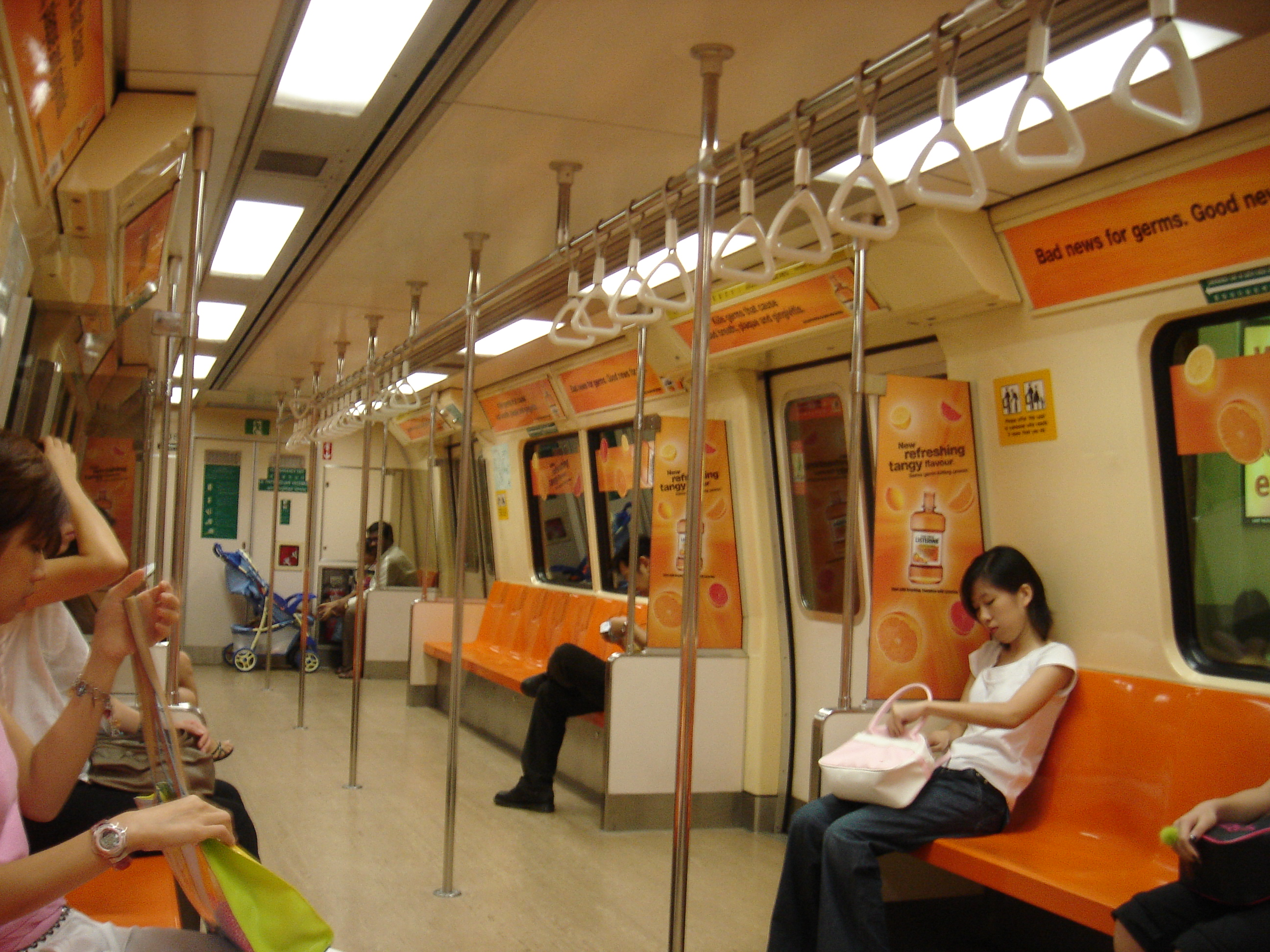 Interior of the C151 Kawasaki Heavy Industries (1986-1989) rolling stock, front compartment.